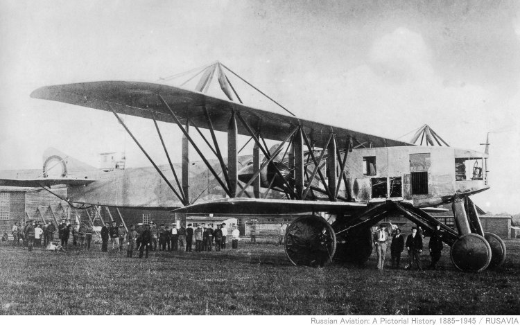 sviatogor prototipe plane in 1917